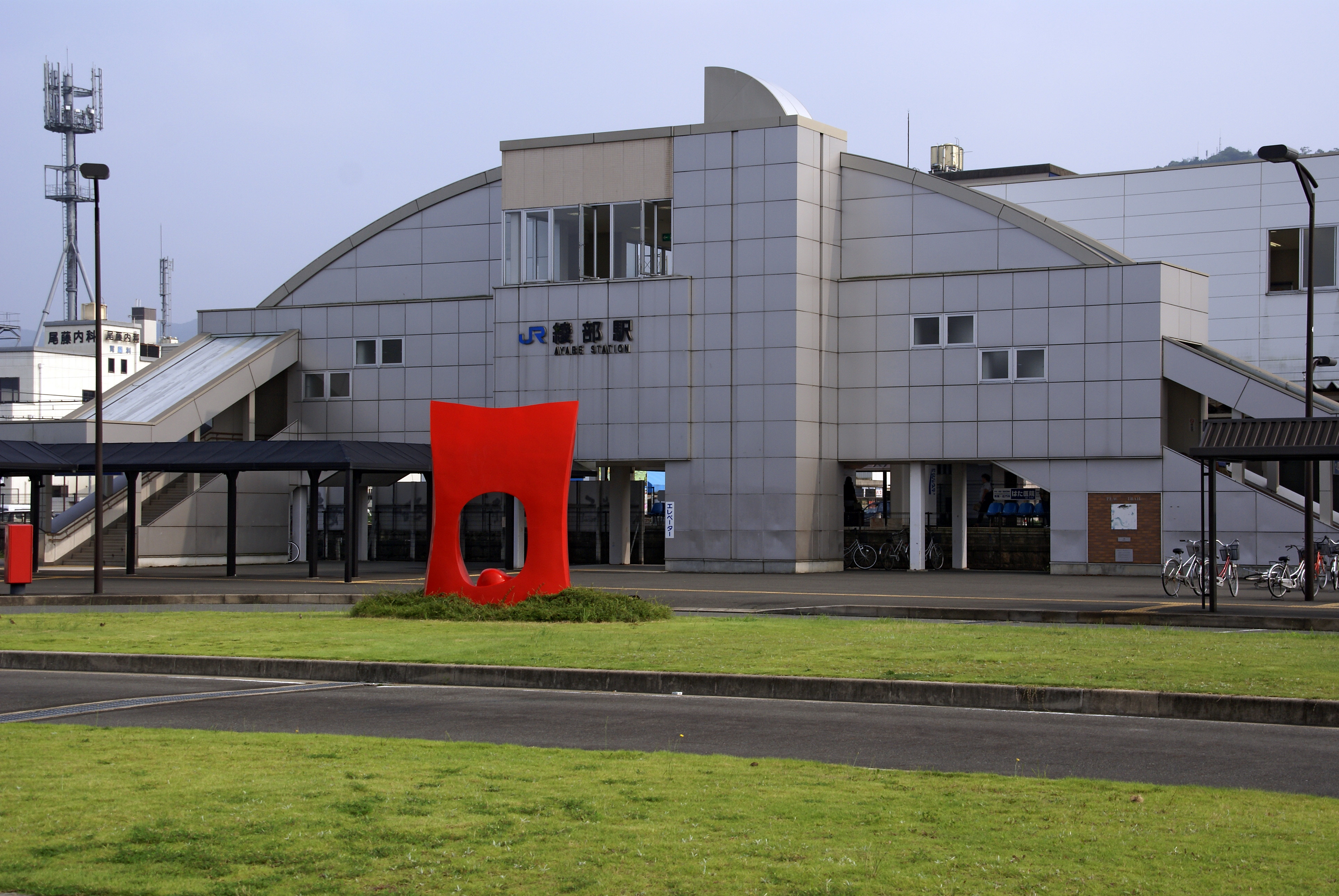 Ayabe Station in Ayabe, Kyoto prefecture, Japan